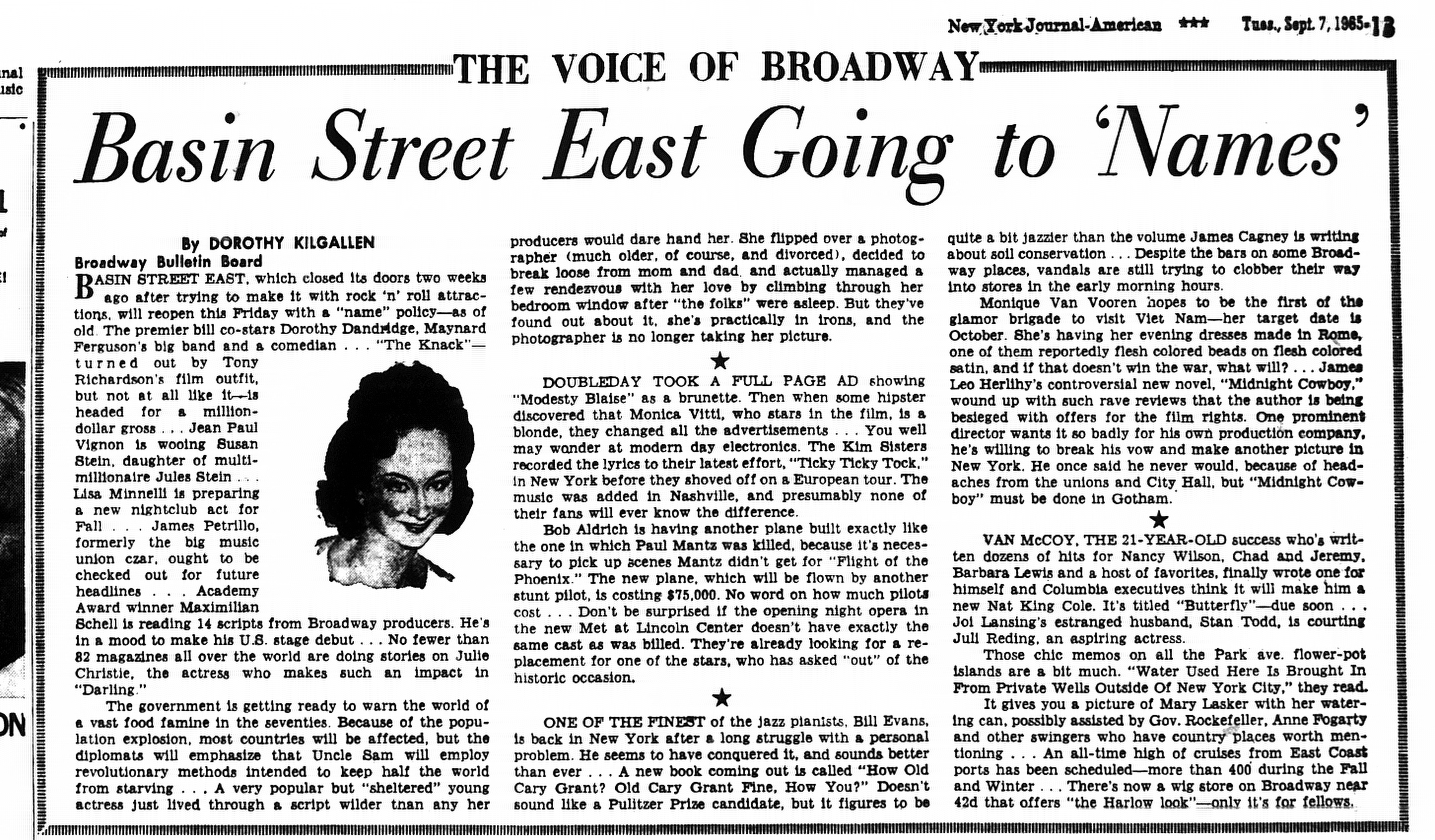 Library of Congress owns the reel of microfilm from which this information about Dorothy Dandridge originated.